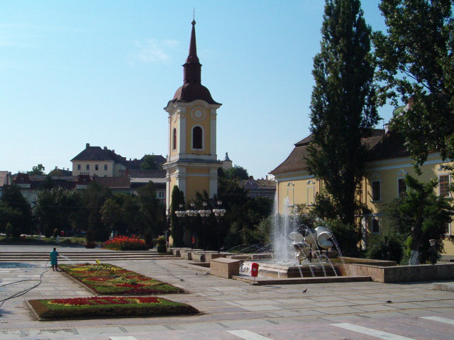 Franciscan's tower - Târgu Mureş